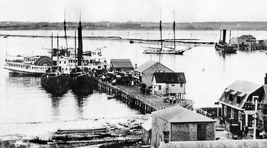 Paddlewheel steamer and ferry Martha's Vineyard at Union Wharf in Vineyard Haven, MA in 1900. Photo taken from the roof of Lane's Block (now Leslie' Drug Store). Beach Road is visible in the distance. In the bottom right the Seaman's Bethel building is visible. In the foreground is the building (later moved) which now houses Mad Martha's ice cream.